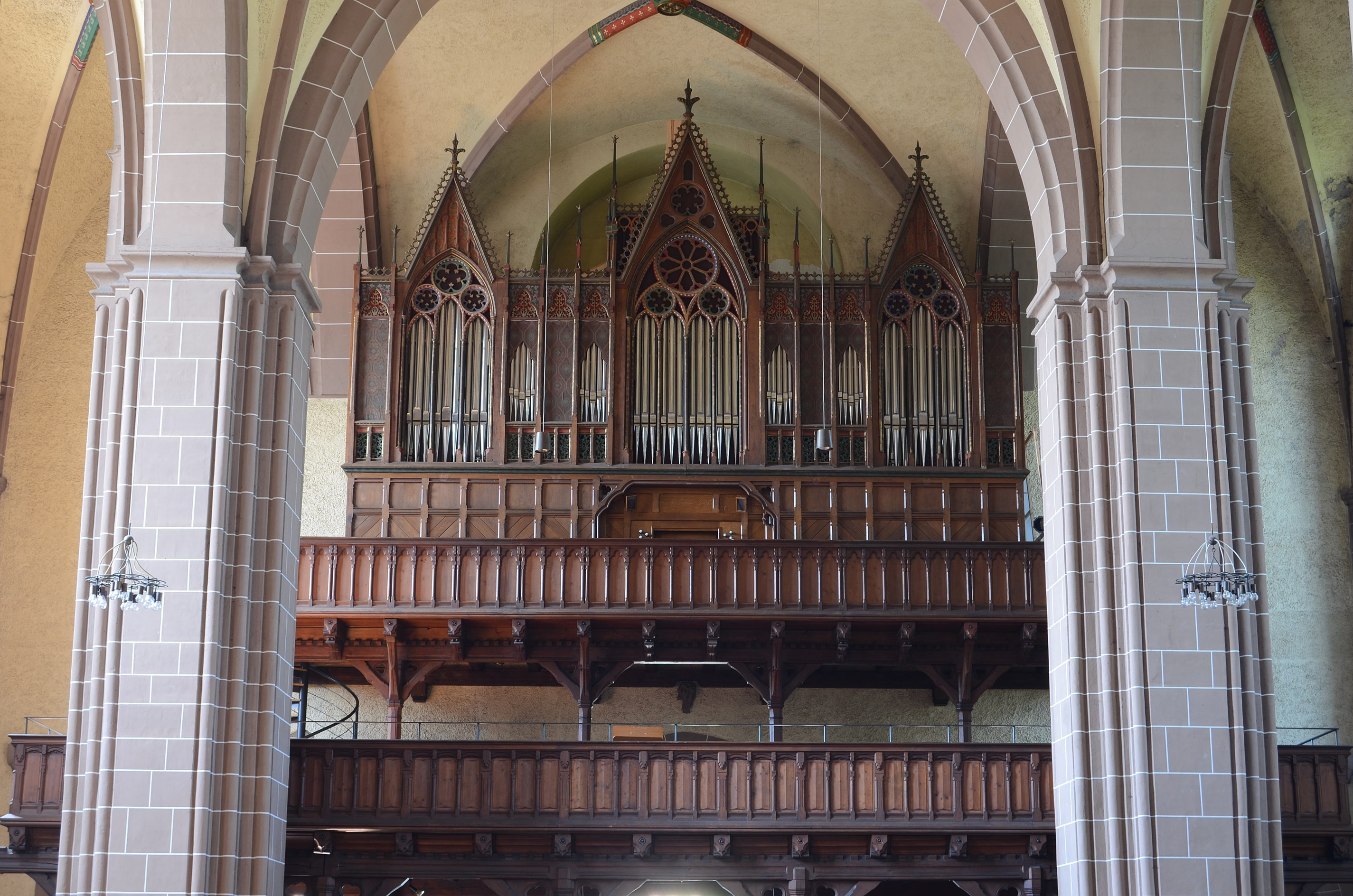 Einbeck (Lower Saxony, Germany) – Lutheran Saint Alexander Church – pipe organ This is a photograph of an architectural monument.It is on the list of cultural monuments of Einbeck This photograph was taken with a Nikon D7000